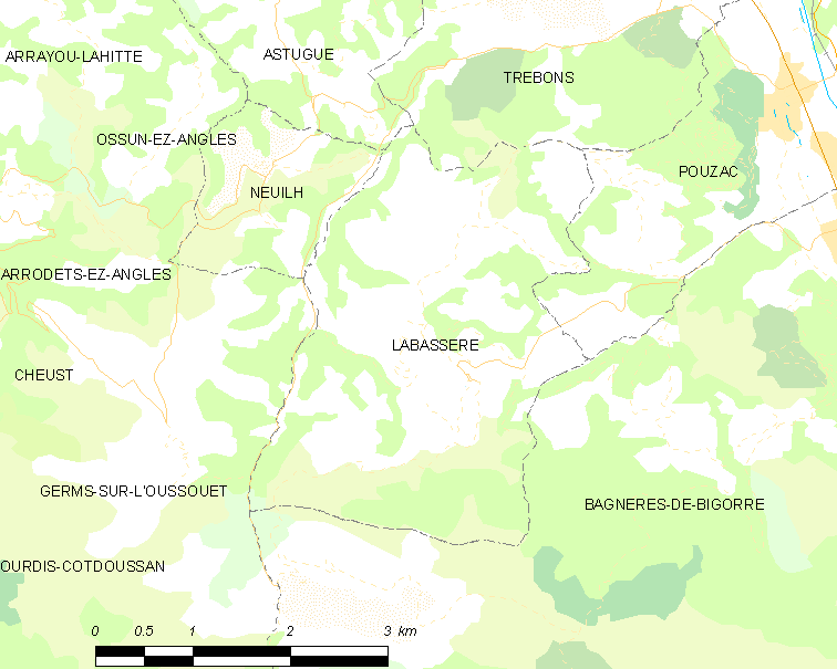 Map of French municipality